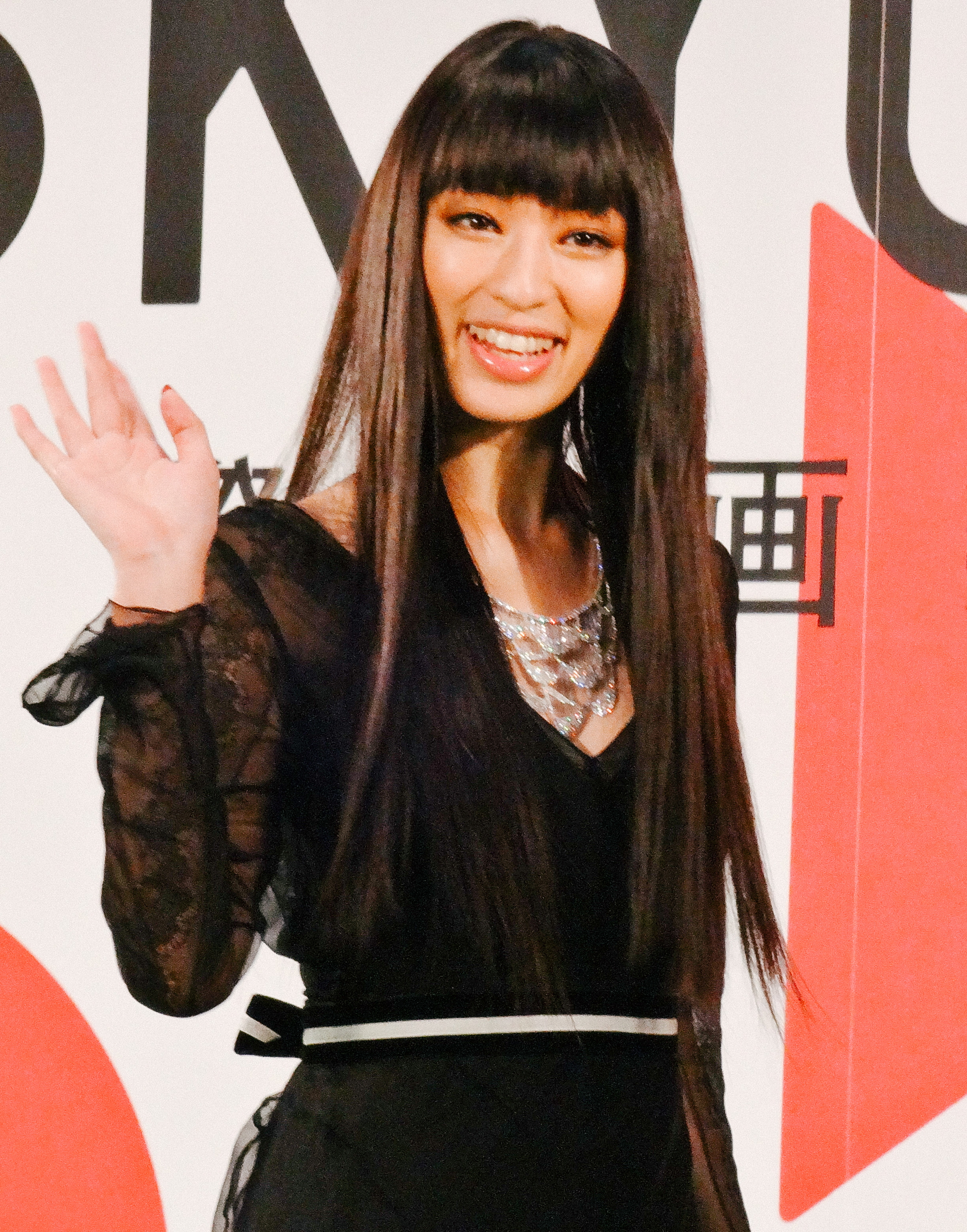 26th Tokyo International Film Festival: Kuriyama Chiaki 第26回 東京国際映画祭 栗山千明